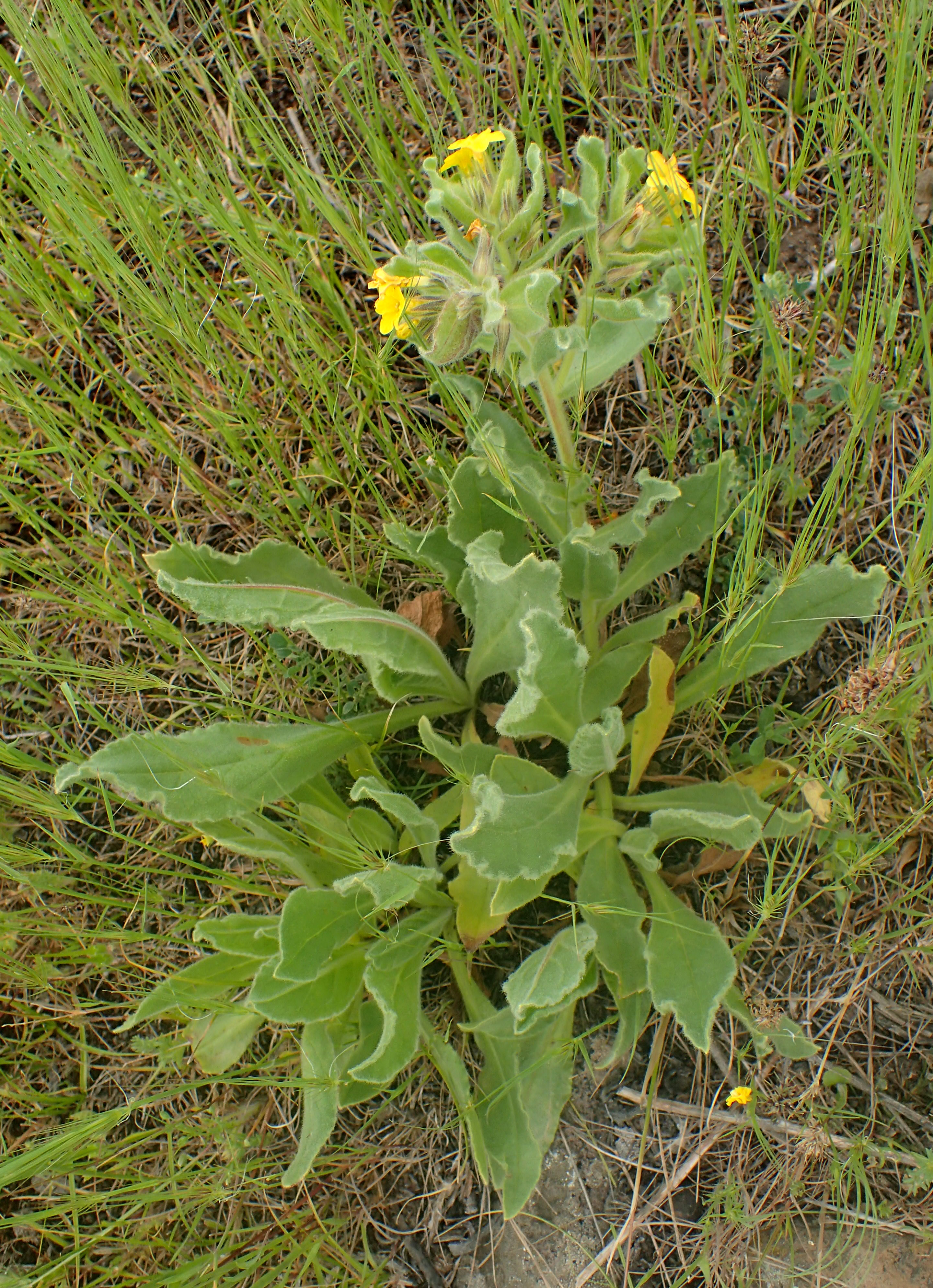 Alkanna orientalis in Voghjaberd, Armenia